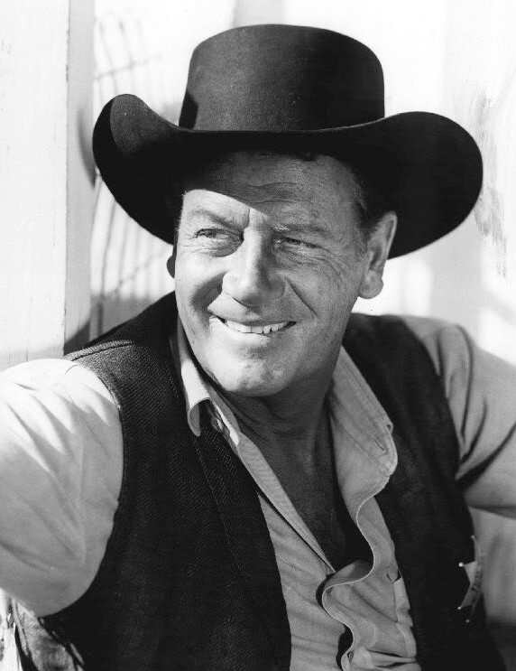 Photo of Joel McCrea as Marshal Mike Dunbar from the American television program Wichita Town.